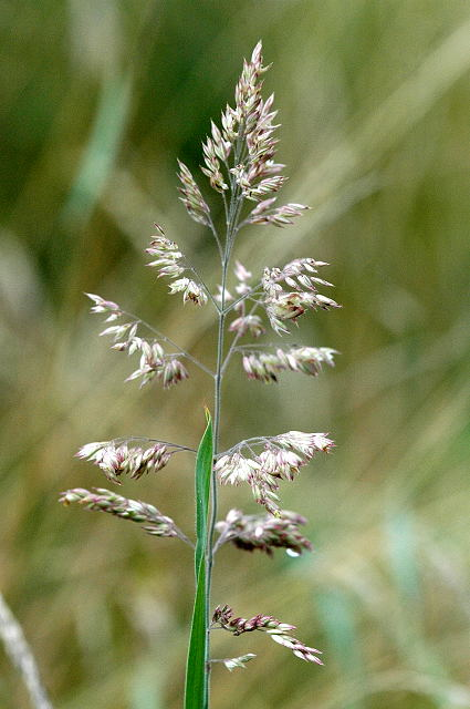 Picture taken in Commanster, Belgian High Ardennes . Species: Poa pratensis